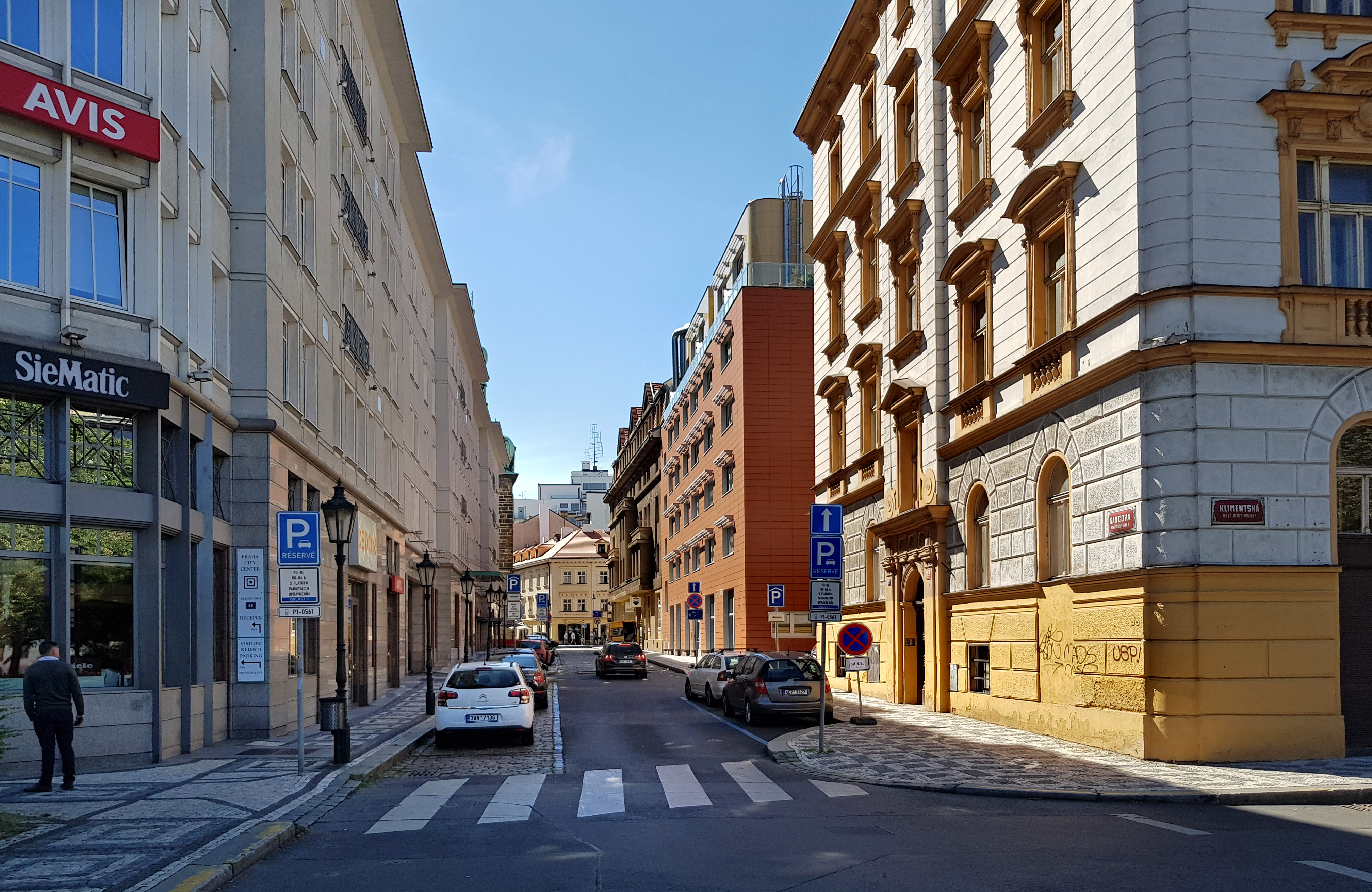 North view to Samcova street, Prague.